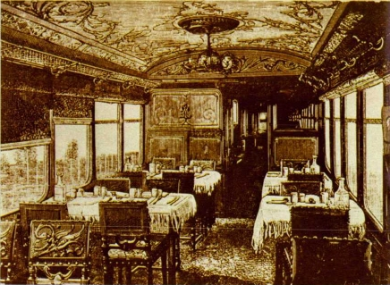 Interior of the restaurant carriage on the Sud Express train, in 1887.